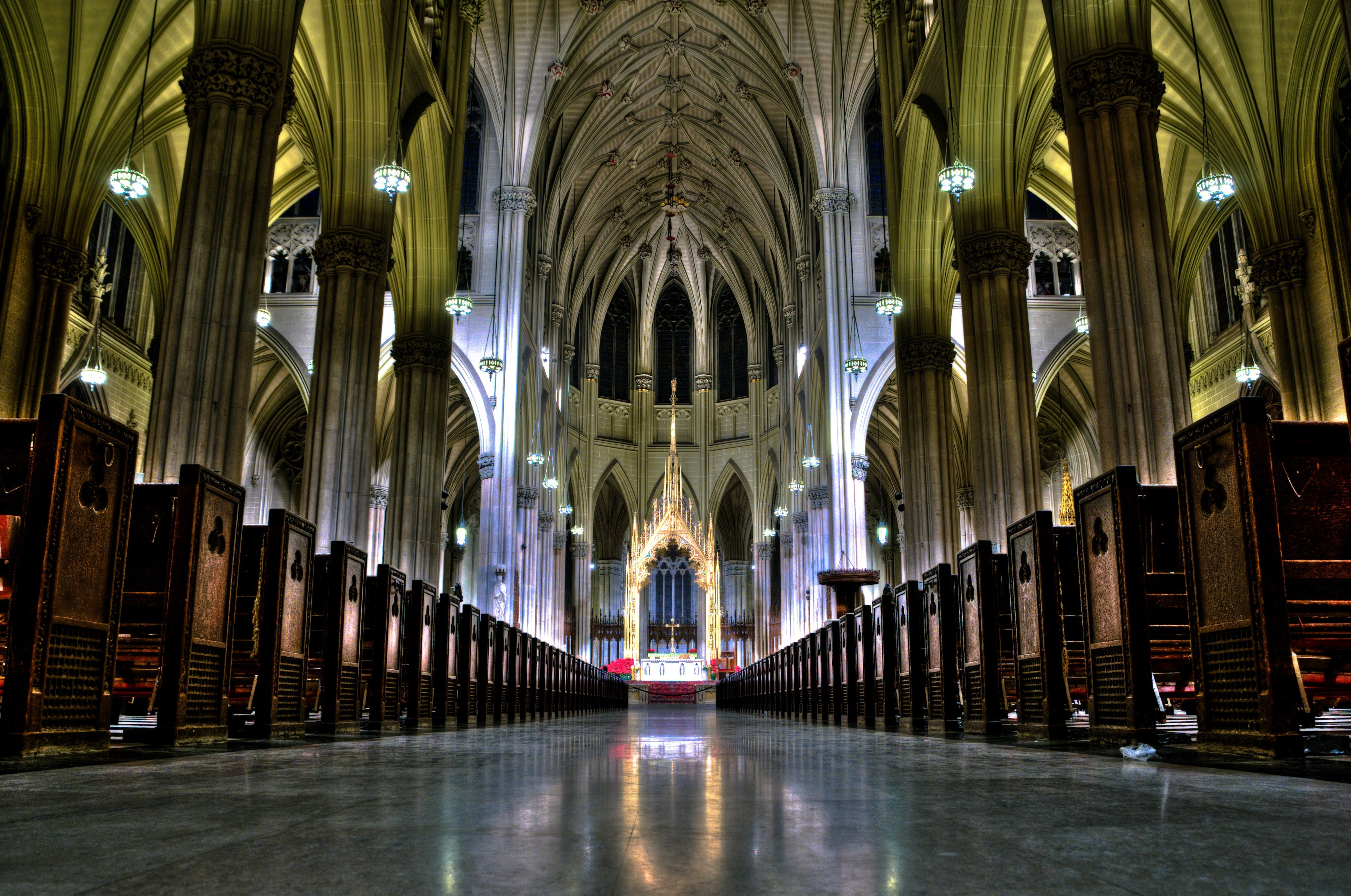 © 2009 Steve Kelley Saint Patrick's Cathredal in New York City. HDR 9 exposures (Photomatix 3.1) Please view on black and large: Stumble It!